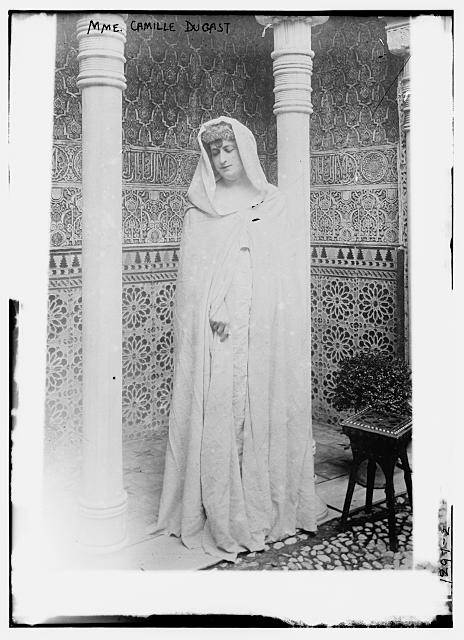 Camille du Gast in Morocco, presumed 1906-1912, or for her article published in Je sais tout 1909